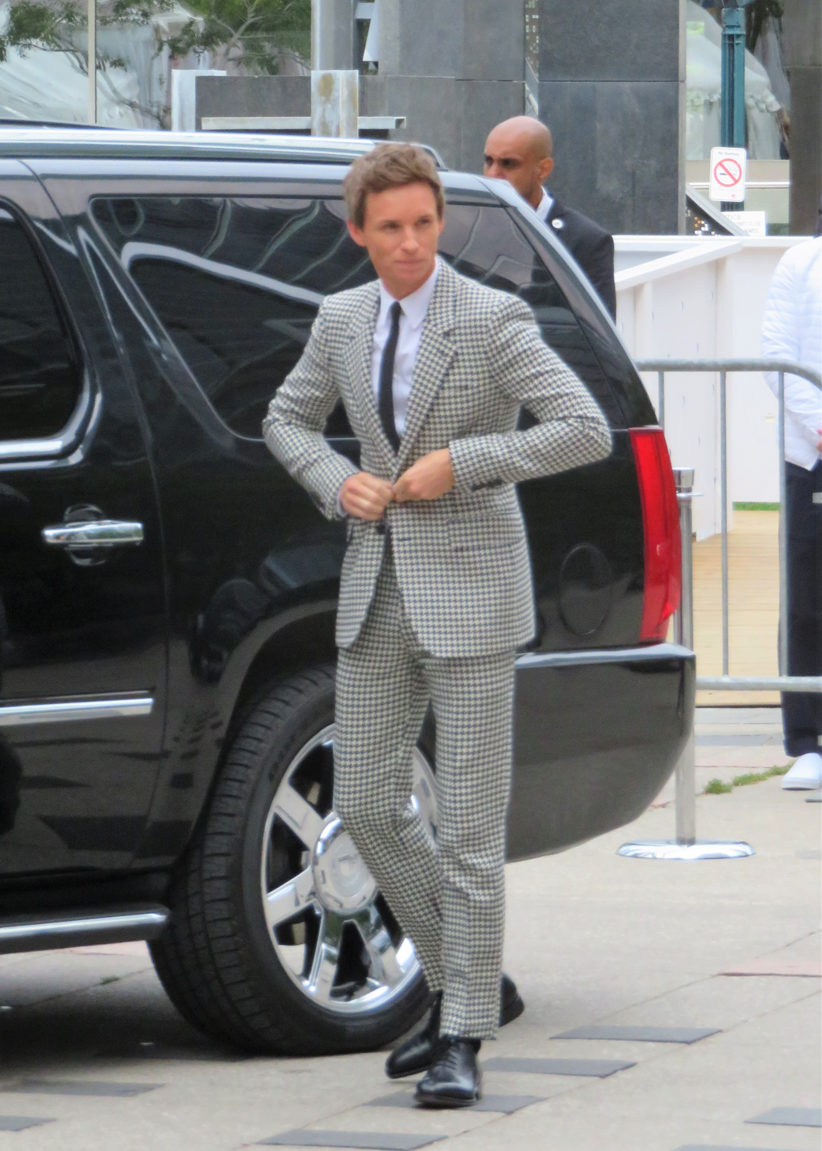 Eddie Redmayne at the premiere of The Aeronauts, 2019 Toronto Film Festival